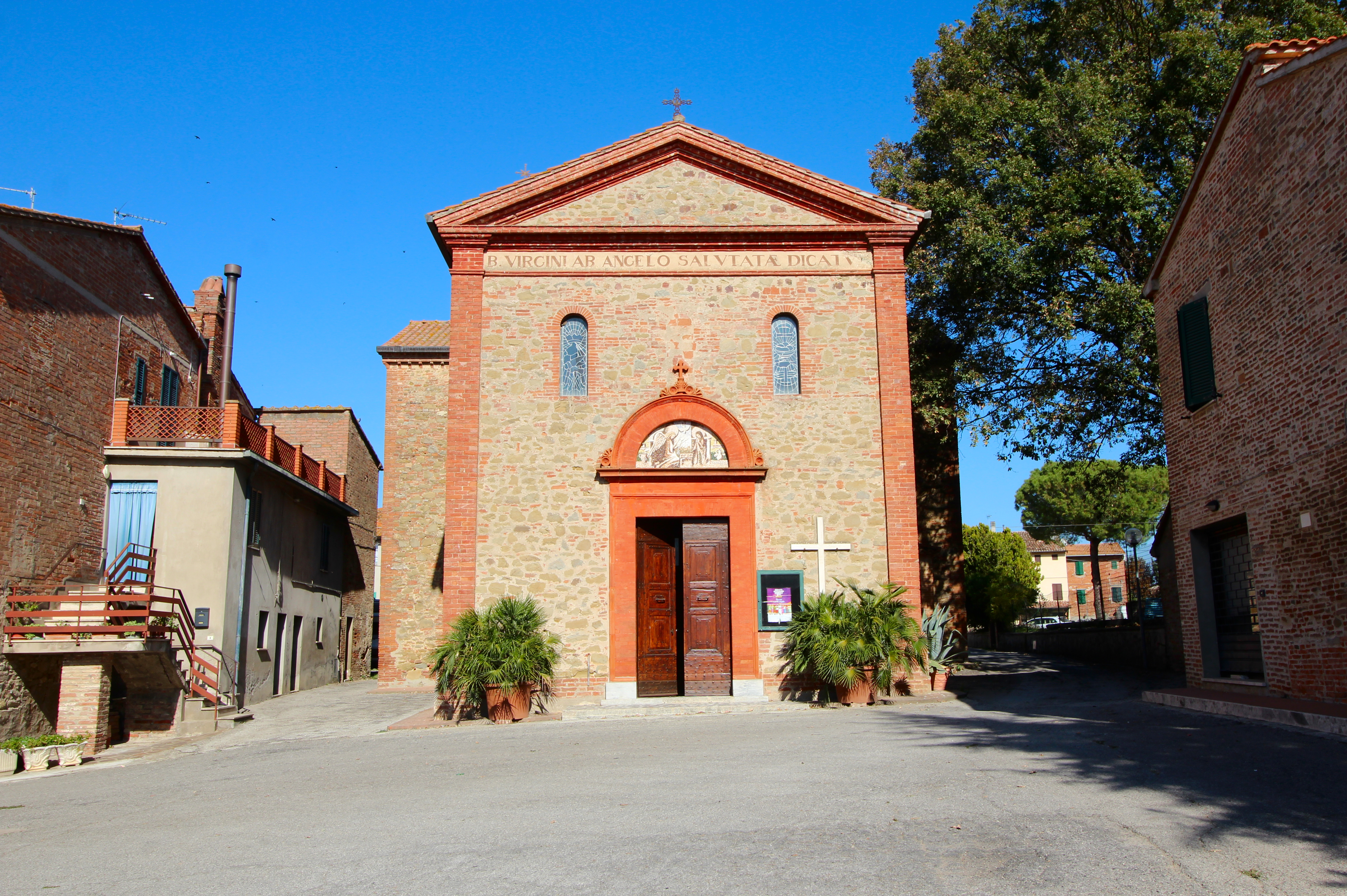 Church Santissima Annunziata, Macchie, hamlet of Castiglione del Lago, Umbria, Italy